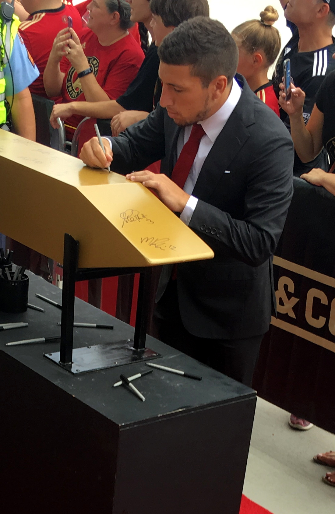 Eric Remedi signing the Golden Spike for Atlanta United on August 19, 2018